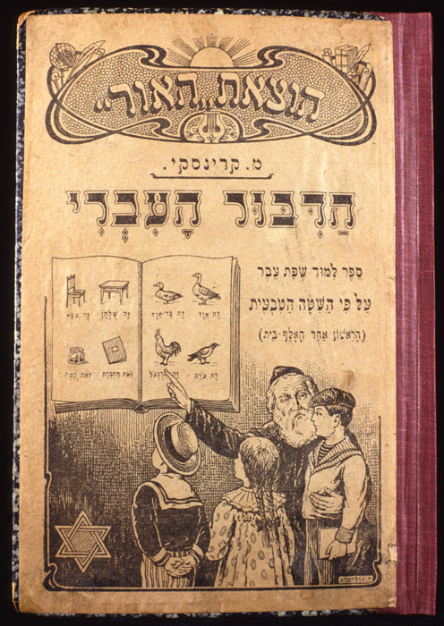 Description: Ha-Dibbur Ha-Ivri / Hebrew Speech. This is a Hebrew primer intended for use after learning the alef-bet. It contains exquisite illustrations, stories with review questions and a color chart. To read the entire book, clickhere. Creator: Krinsky Goldberg Ha-Or Object Origin: Warsaw Date: 1905 Persistent URL: Repository:Yeshiva University Museum Call Number: 1998.875 Rights Information: No known copyright restrictions; may be subject to third party rights. For more copyright information, click here. See more information about this image and others at CJH Digital Collections. Digital images created by the Gruss Lipper Digital Laboratory at the Center for Jewish History